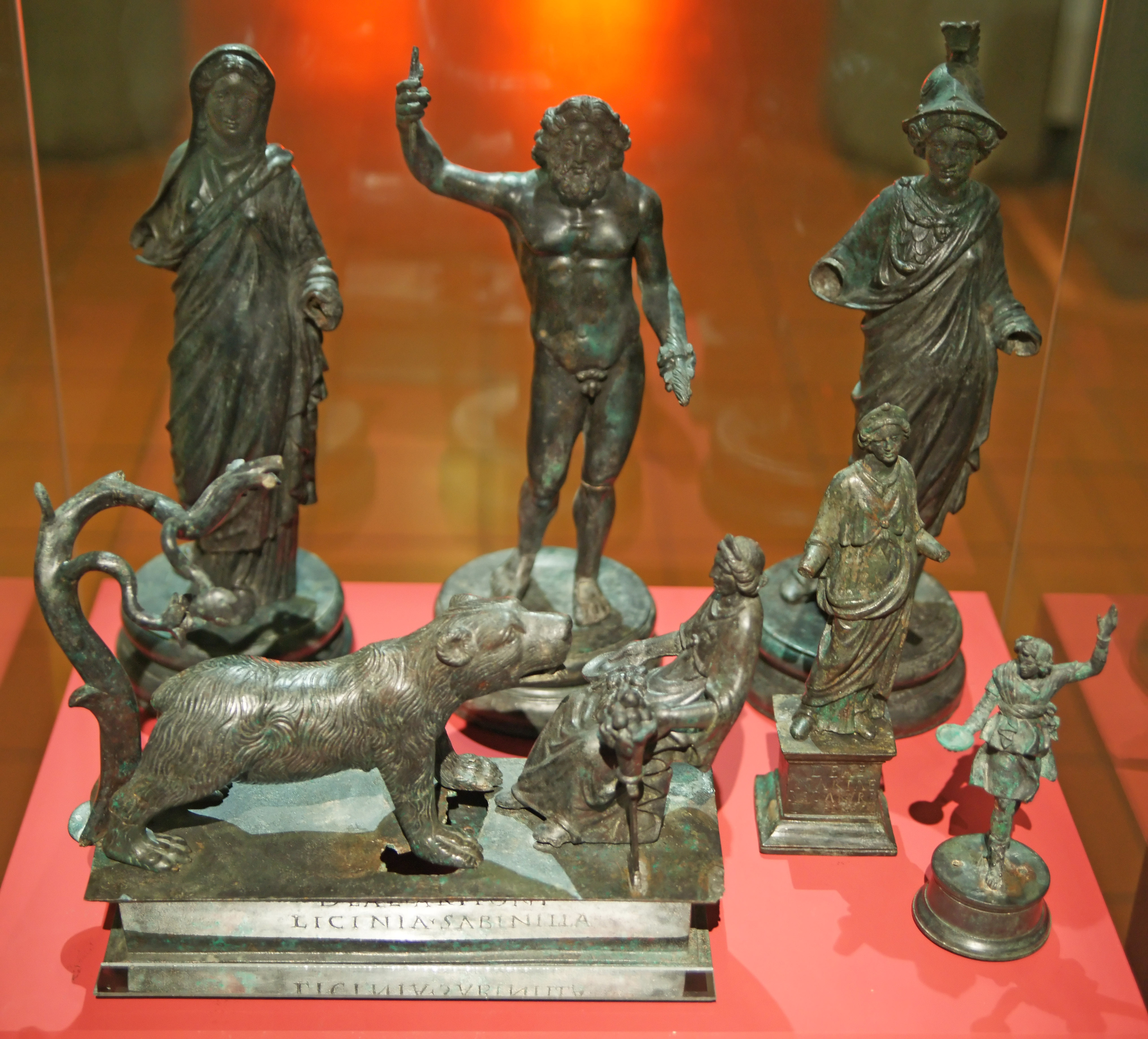 The Muri statuette group, a noted collection of bronze figures of Gallo-Roman found in Muri bei Bern, Switzerland, 1832.